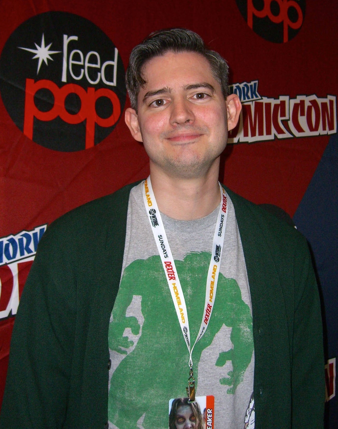 Internet personality Michael Agrusso, the creator of the YouTube channel ItsJustSomeRandomGuy, speaking at the Variant Stage on Day 3 of the 2012 New York Comic Con, Saturday October 13, 2012 at the Jacob K. Javits Convention Center in Manhattan. This photo was created by Luigi Novi. It is not in the public domain, and use of this file outside of the licensing terms is a copyright violation.